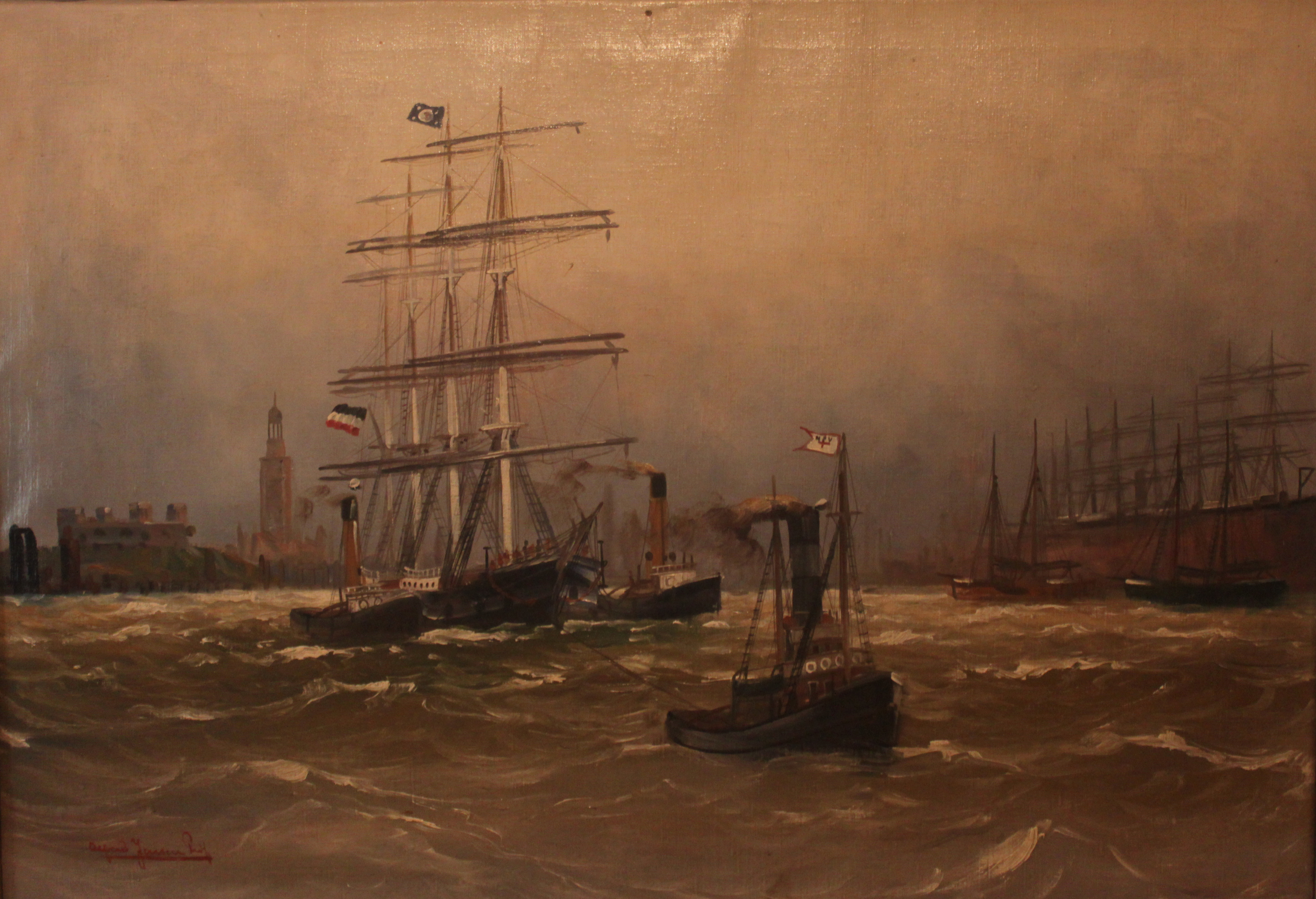 The painting shows a four-masted sailing ship in Hamburg harbour app. 1901, painted by Prof. Alfred Jensen, private ownership